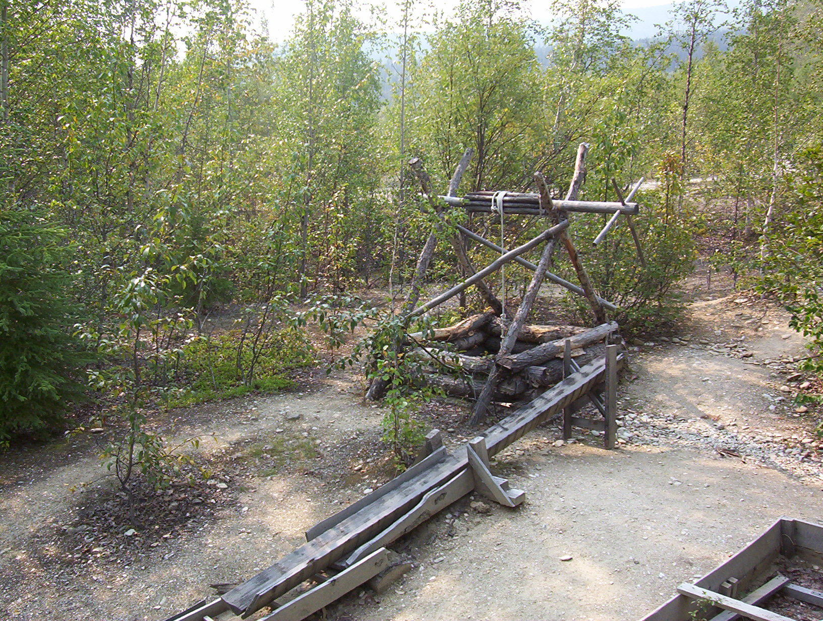 Hand operated hoist, Bonanza Creek, Klondike, Yukon Picture taken on August 10th, 2005 by Janothird